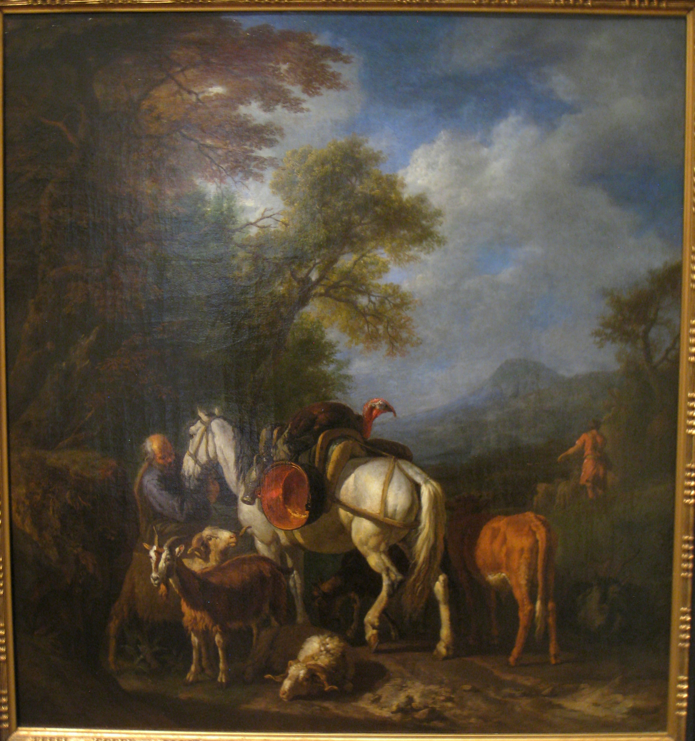 The Rest